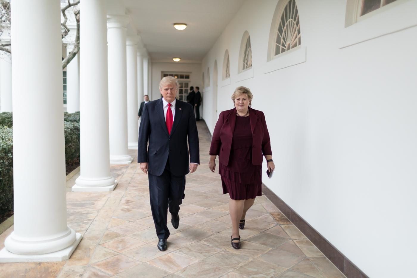 President of the United States Donald Trump and Prime Minister of Norway Erna Solberg | January 10, 2018